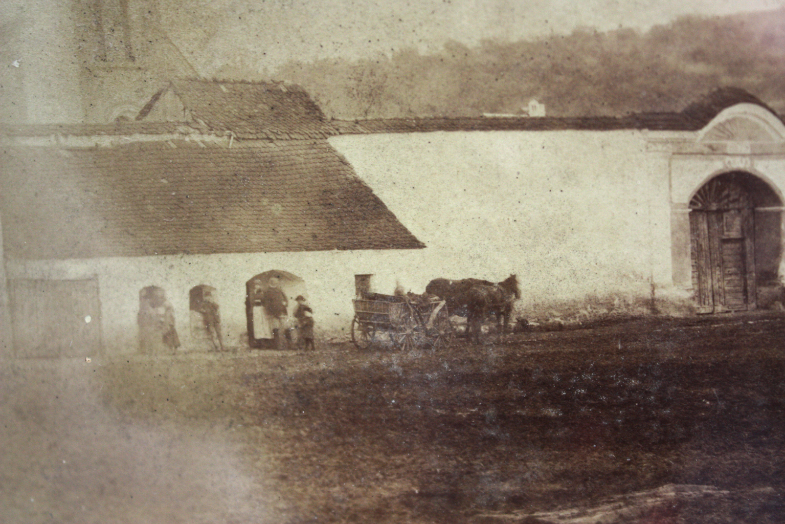 Photo of the village Stein/ Dacia in Romania before 1904.